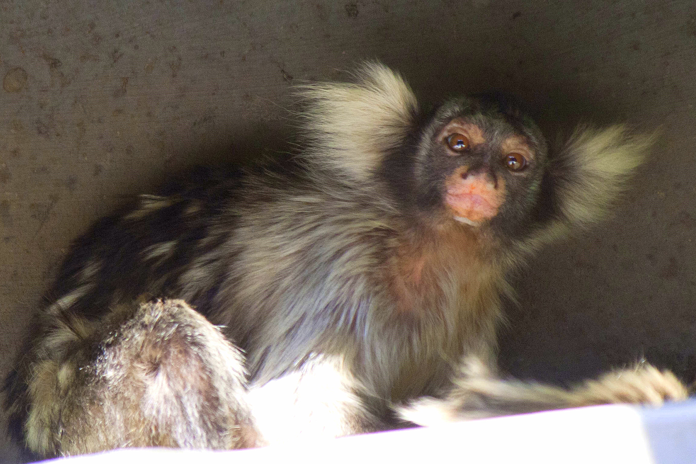 Mico humeralifer in Sorocaba Zoo.